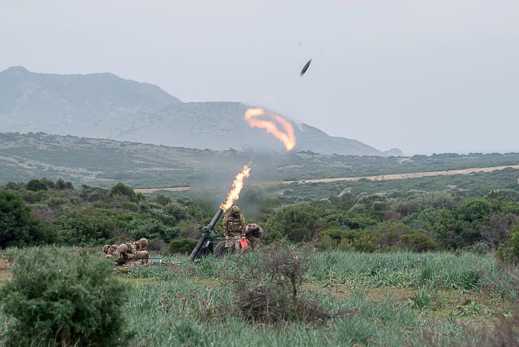 Italian Army 151st Infantry Regiment "Sassari" mortar team